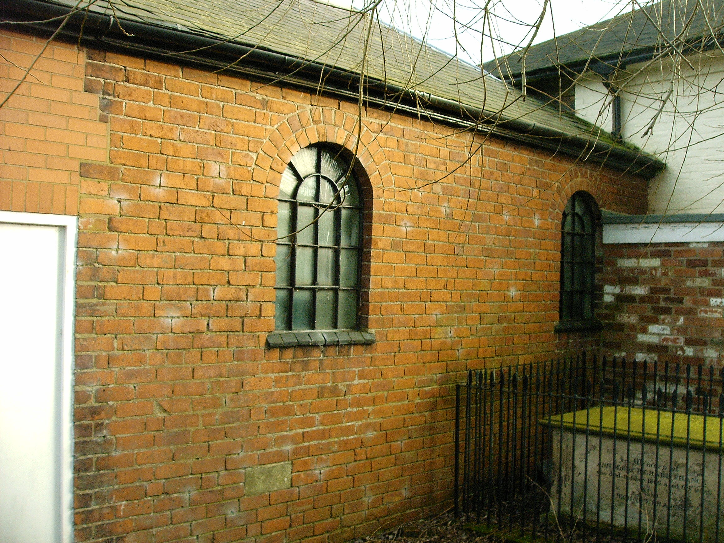 Rear corner of Plealey Methodist Chapel, with location of tomb of Ann and Richard France.